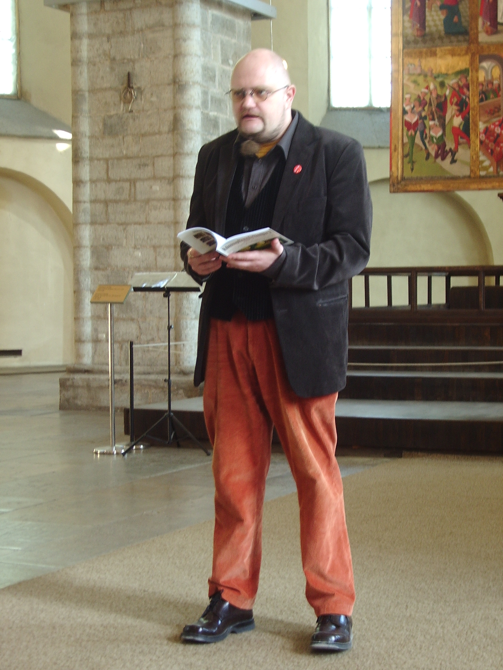 Karl Martin Sinijärv (born 1971) is Estonian poet. Reading his poems in Tallinn Literature Festival.